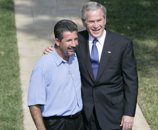 Original description: President George W. Bush smiles as he stands with Rockey Vaccarella during a statement to the media Wednesday, Aug. 23, 2006, on the White House lawn. Vaccarella, who lost his home in the wake of Hurricane Katrina and who drove to Washington D.C. to speak directly to the President, told reporters, "I just don't want the government and President Bush to forget about us," adding, "If we had this President for another four years, I think we'd be great."